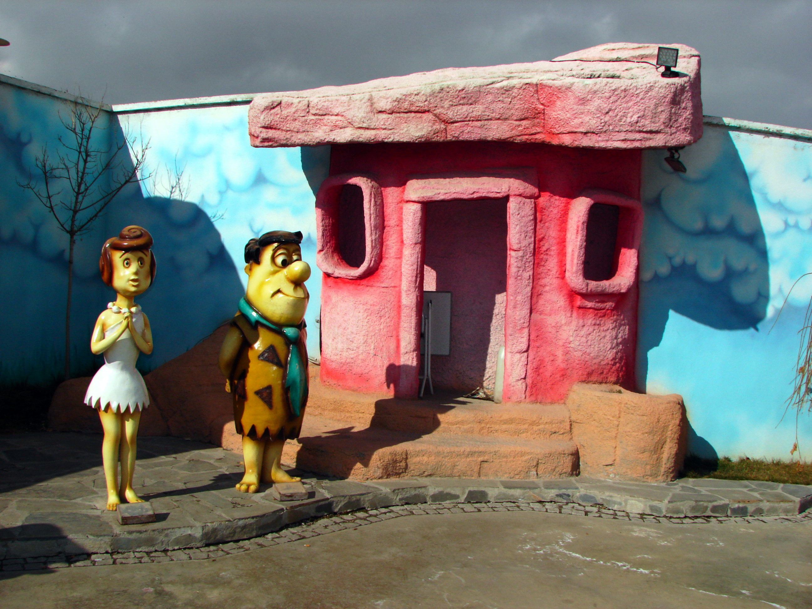 Fred and Wilma Flintstone figurines at the Ankara Public Amusement Park